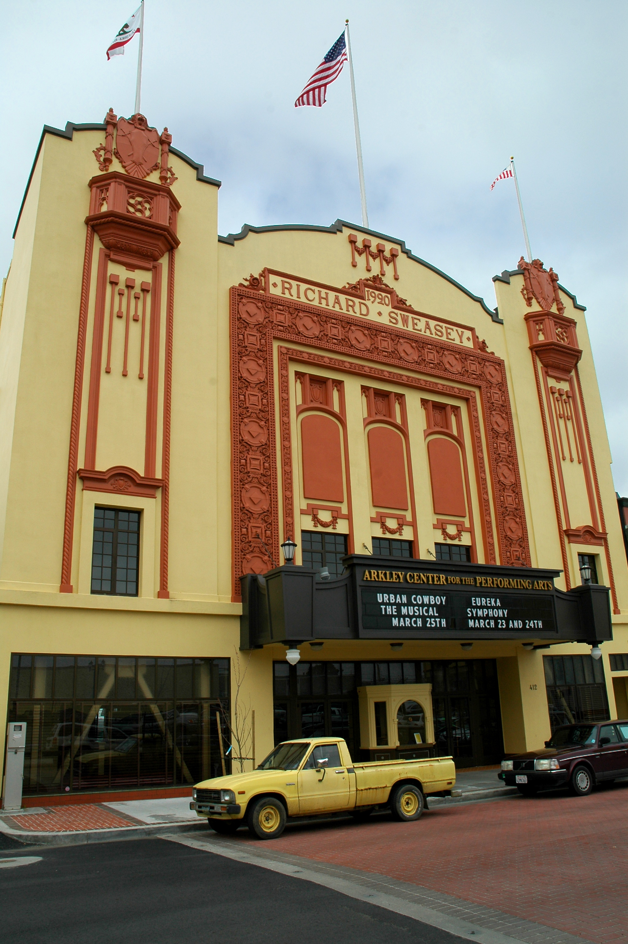 The former Richard Sweasey Theater, 412 G Street, Eureka, California, became the Arkley Center for the Performing Arts after a 2003-2007 renovation.